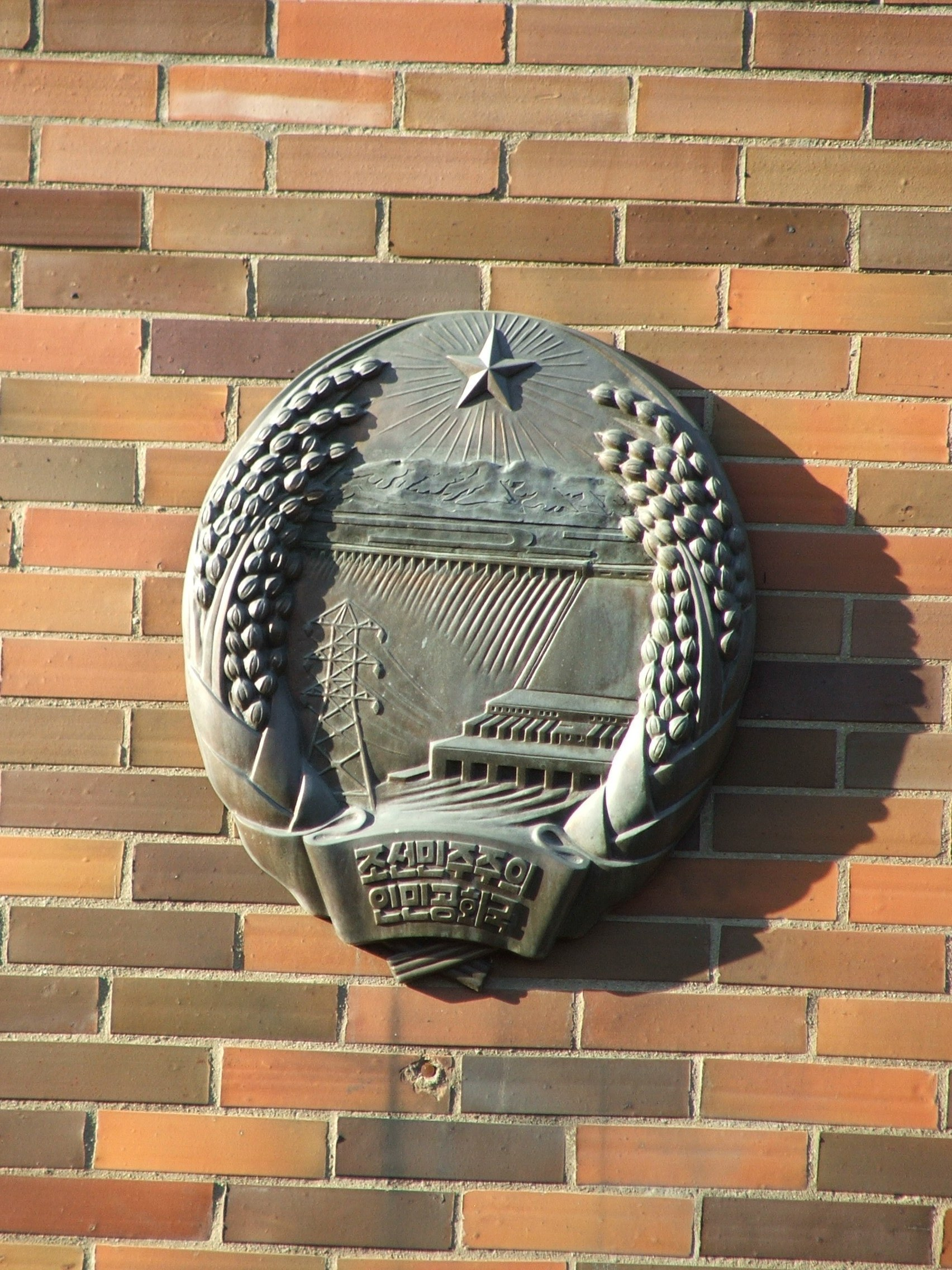 Coat of arms at North Korean Embassy in Prague, Czechia